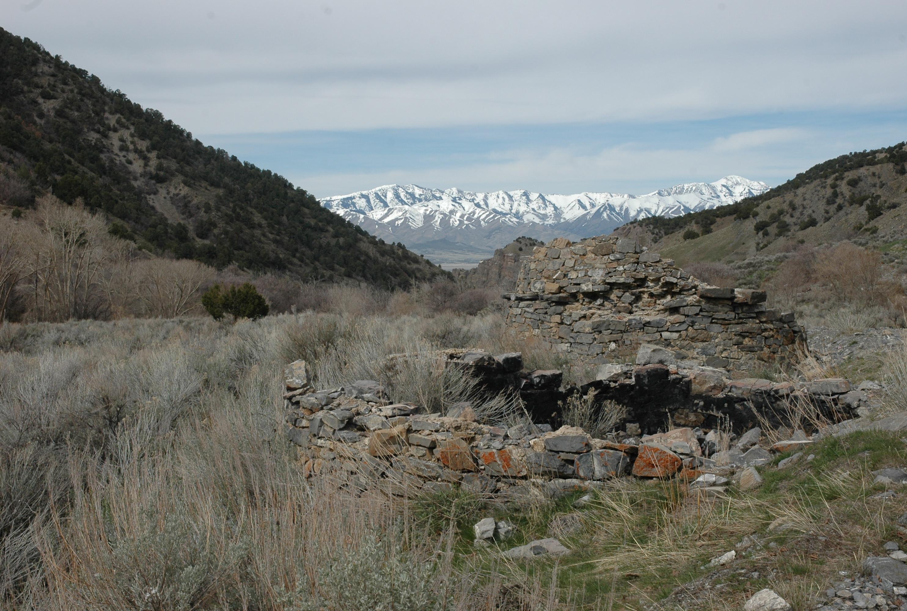 The Waterman Coking Ovens, a group of historic charcoal kilns in Soldier Creek Canyon, near Stockton, Utah, United States.